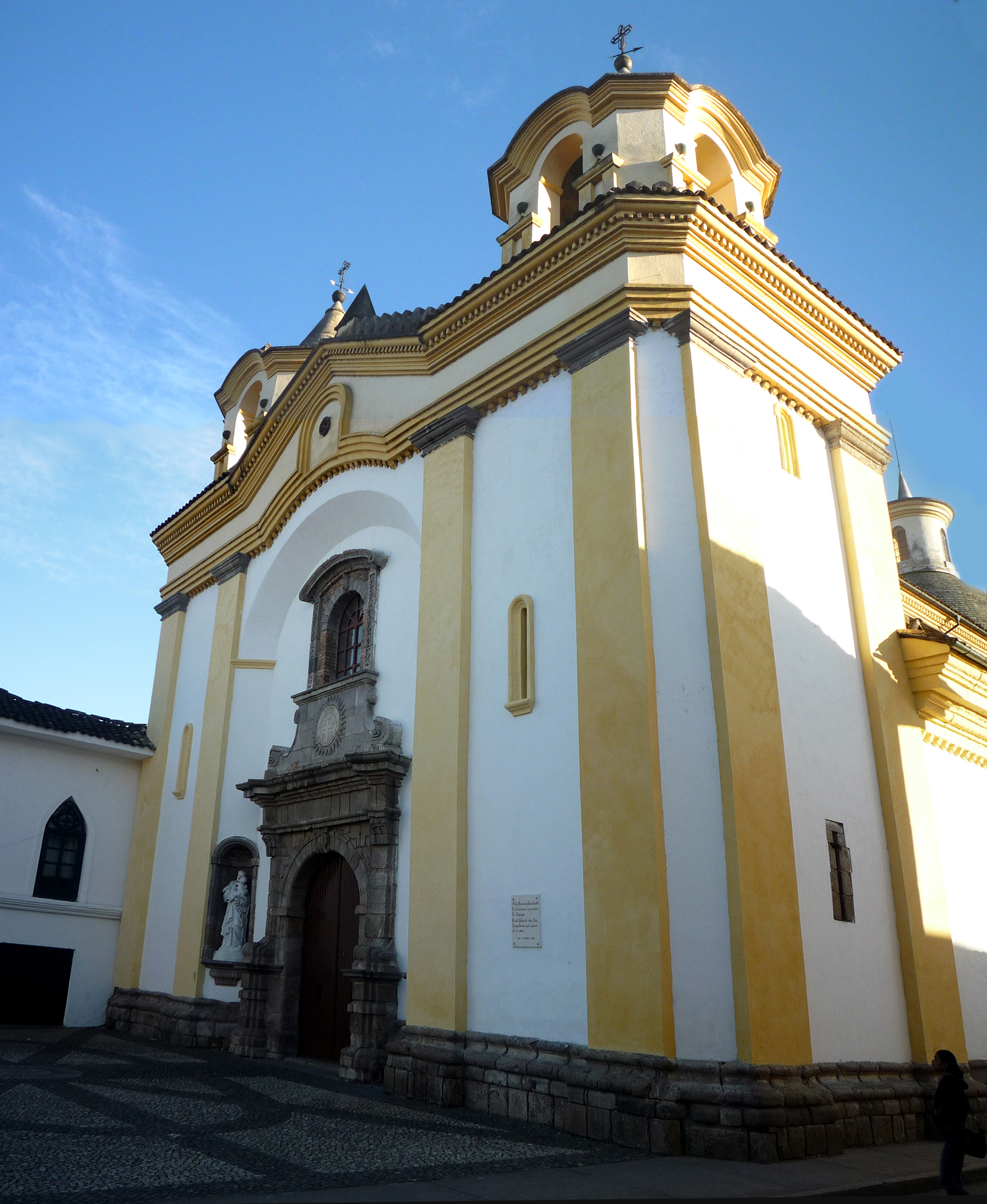 Tempo de San José, Popayán